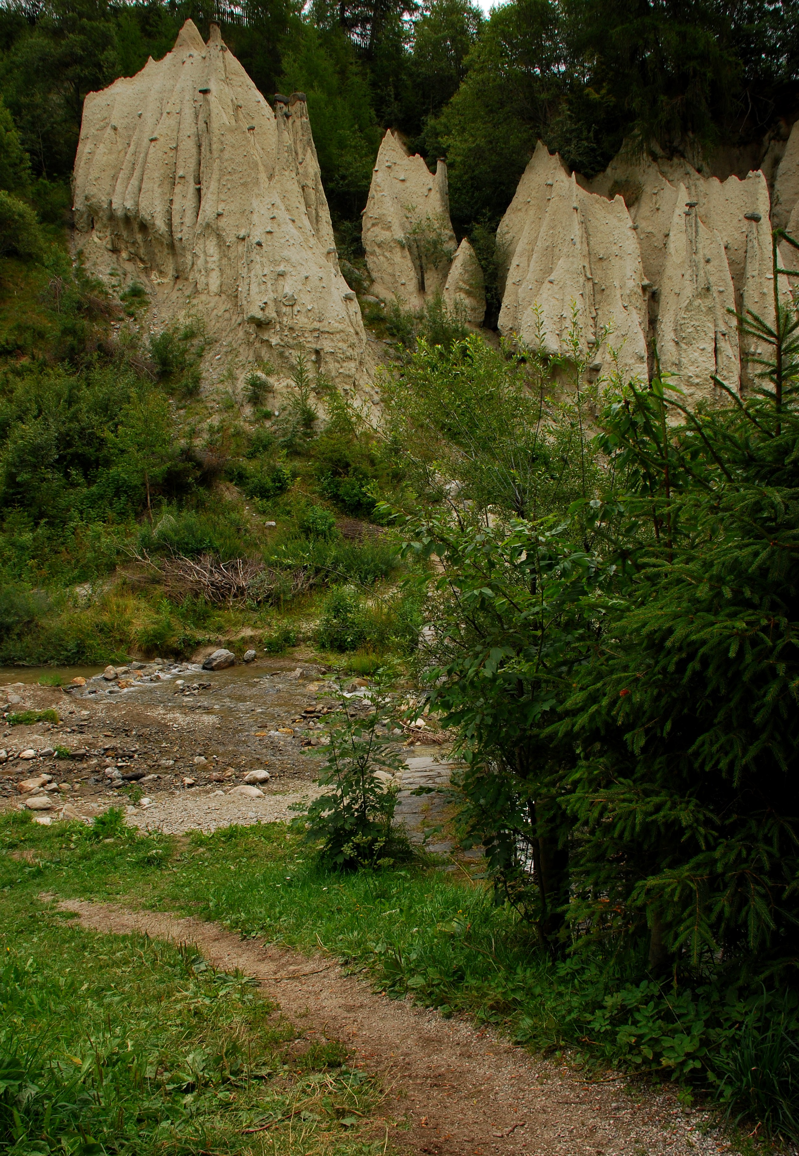 Hoodoos in Terenten